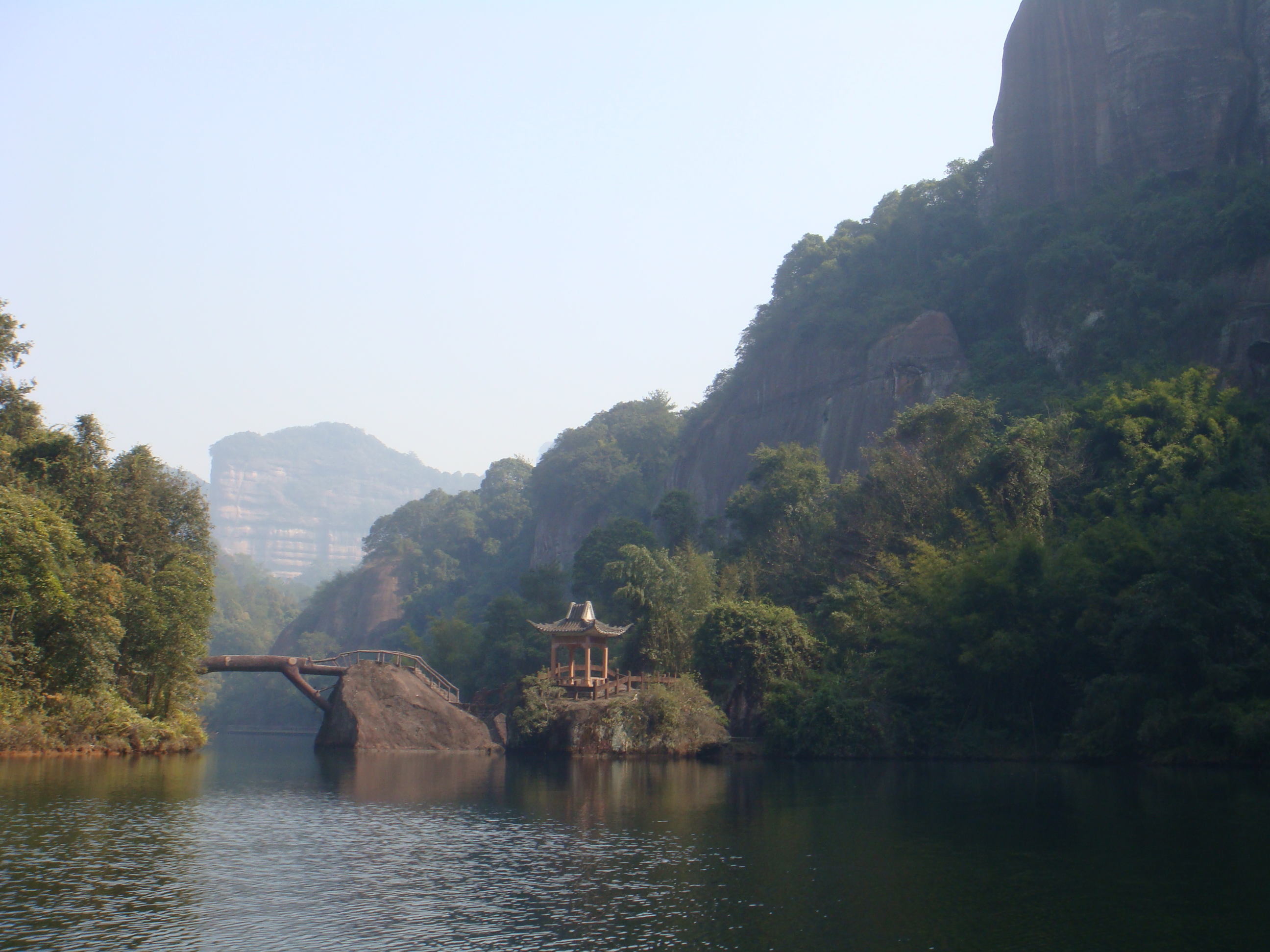 China Danxia (China)